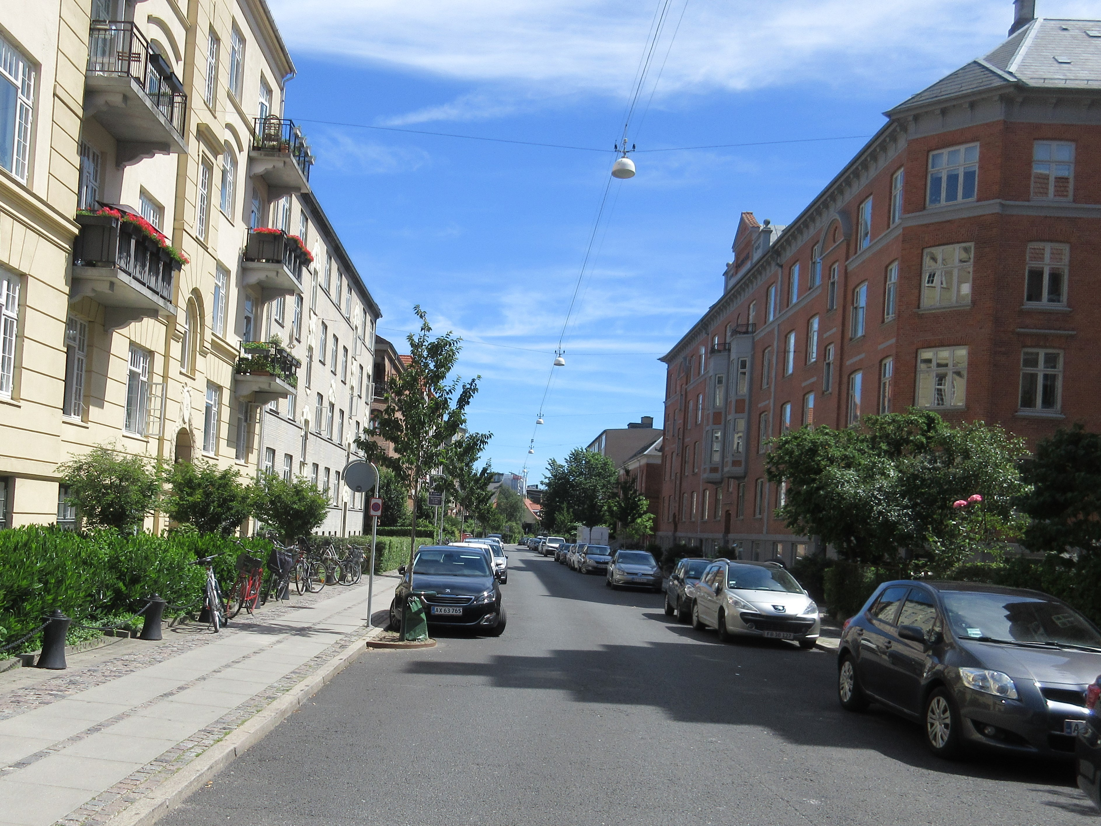 Mariendalsvej in Frederiksberg, Denmark